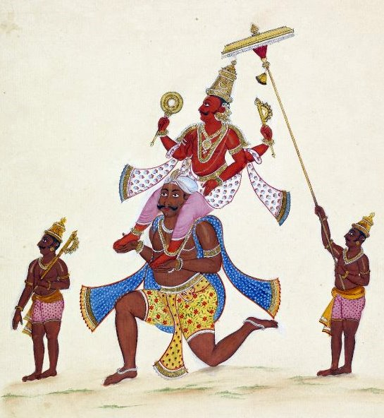 "Gouache painting on paper from a portfolio of sixty-three paintings of deities and daily life. Nairruti, the guardian of the south-west, rides on the shoulders of a large, dark male figure. The red-complexioned dikpala (guardian) is shown with four arms. In his upper right hand is a round object with a handle and in the upper left hand is a fan. His lower right hand is in abhaya and his lower left in varada mudra. He wears a dhoti, the angavastra (shawl) draped over his elbows, and he bears a delicately drawn yajnopavita (sacred thread) across his chest. The sturdy man supports Nairruti’s feet on his upturned palms. He wears short trousers, an angavastra draped over his shoulders and ornaments. The god is accompanied by two attendants on foot. The one preceding him carries a fan, similar to the one Nairruti carries in his upper left hand. The other, following him, carries a parasol. A light wash of brown and green suggest the ground on which the group stand"